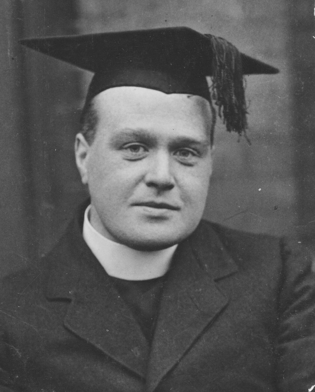 A photograph of Rev Thomas B. Allworthy with mortarboard